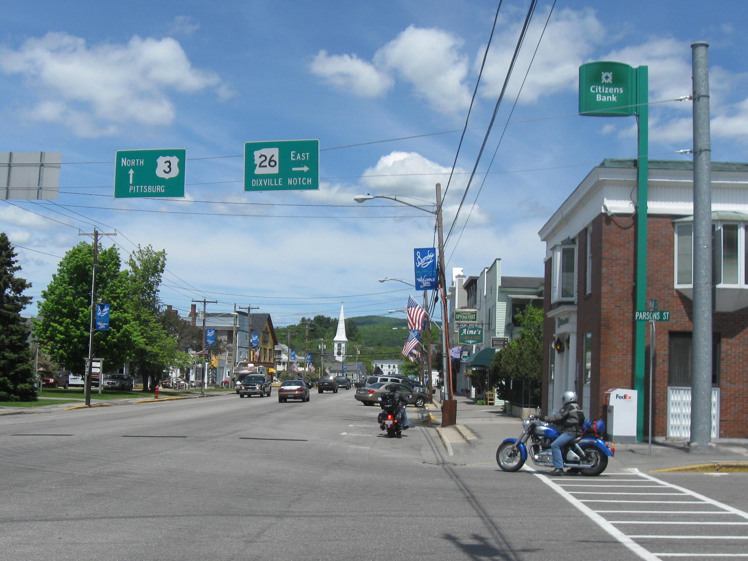 Street scene, downtown Colebrook, June 2009